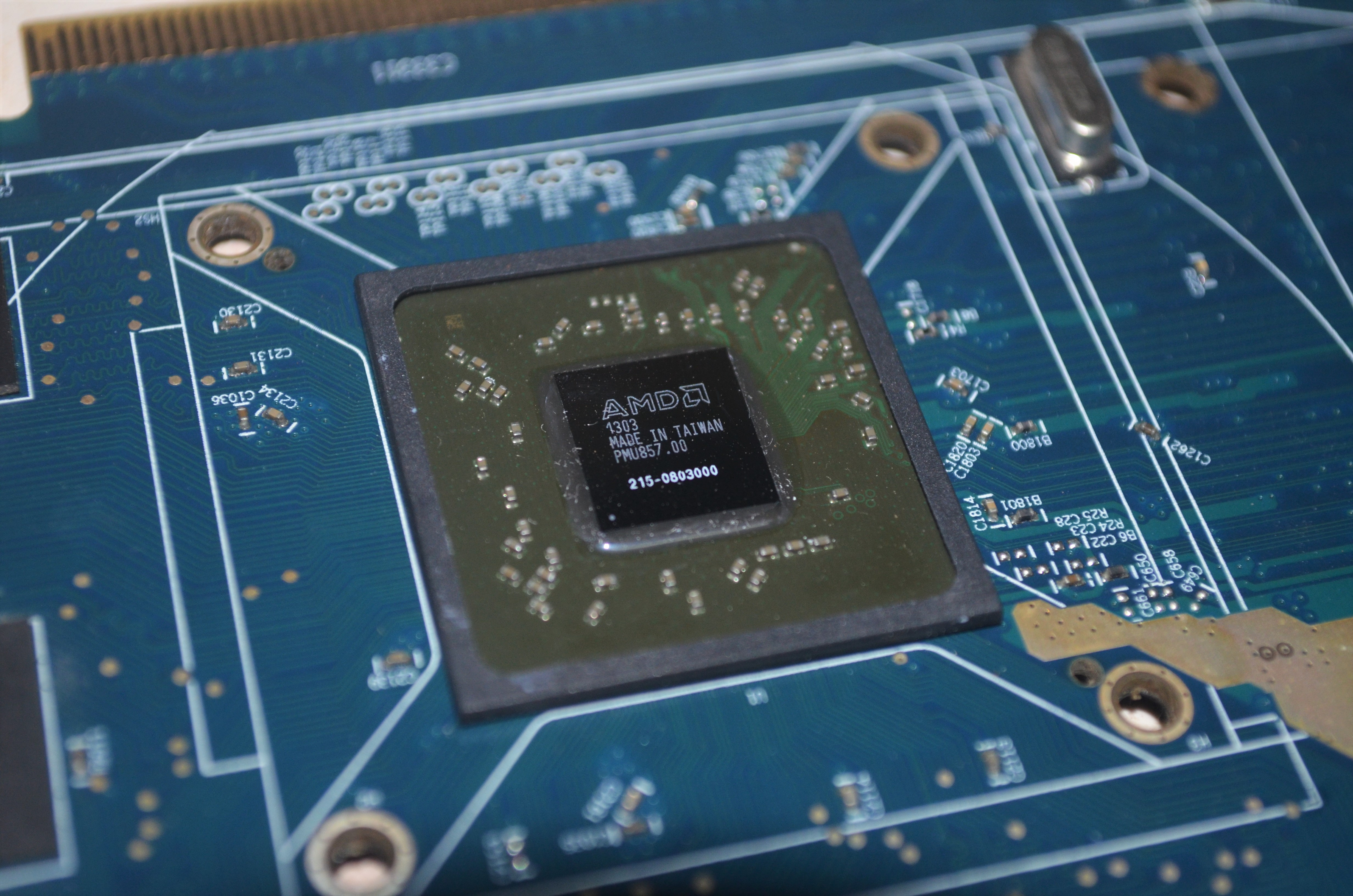 HIS AMD Radeon 5670 with heatsink removed